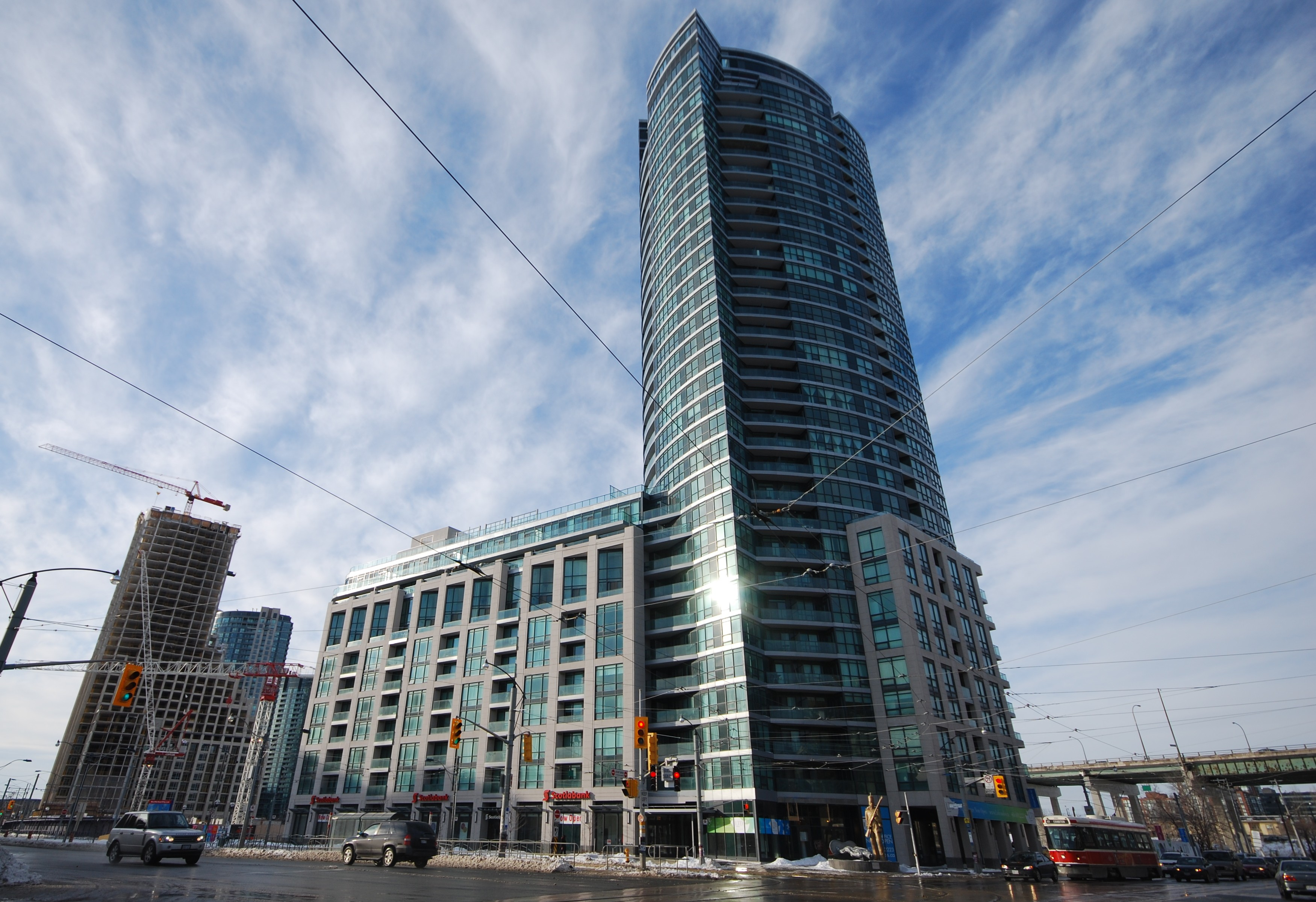 New Development in Fort York Neighbourhood District